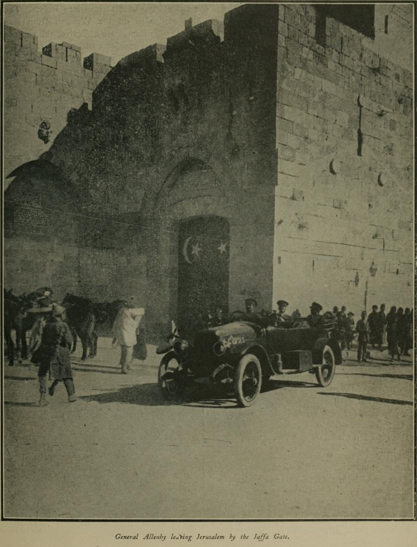 WWI Photograph Allenby leaving Jaffa Gate